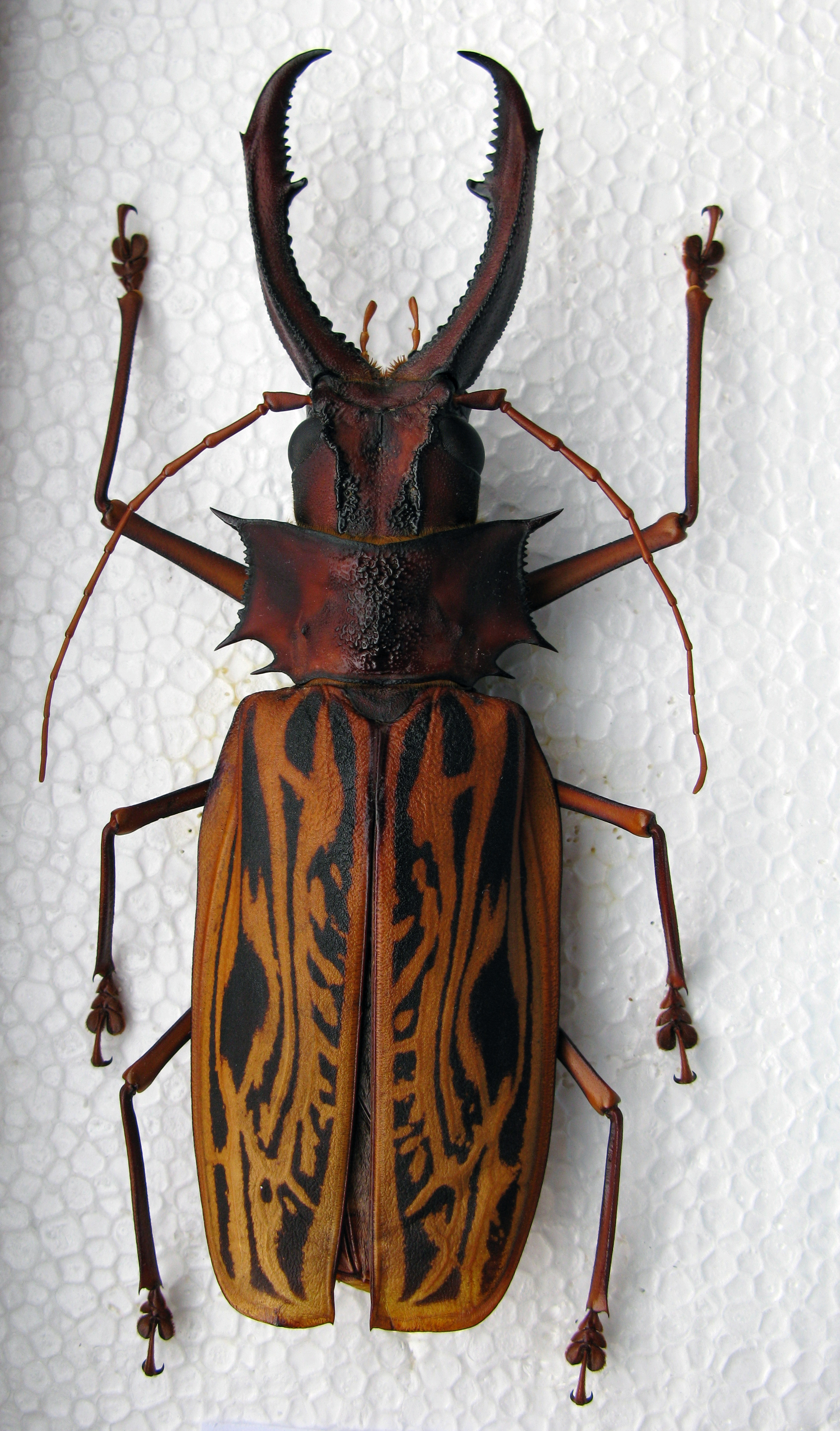 Macrodontia cervicornis. Male 155 mm, from Loreto Eden - Satipo, Peru. 22.03.2010